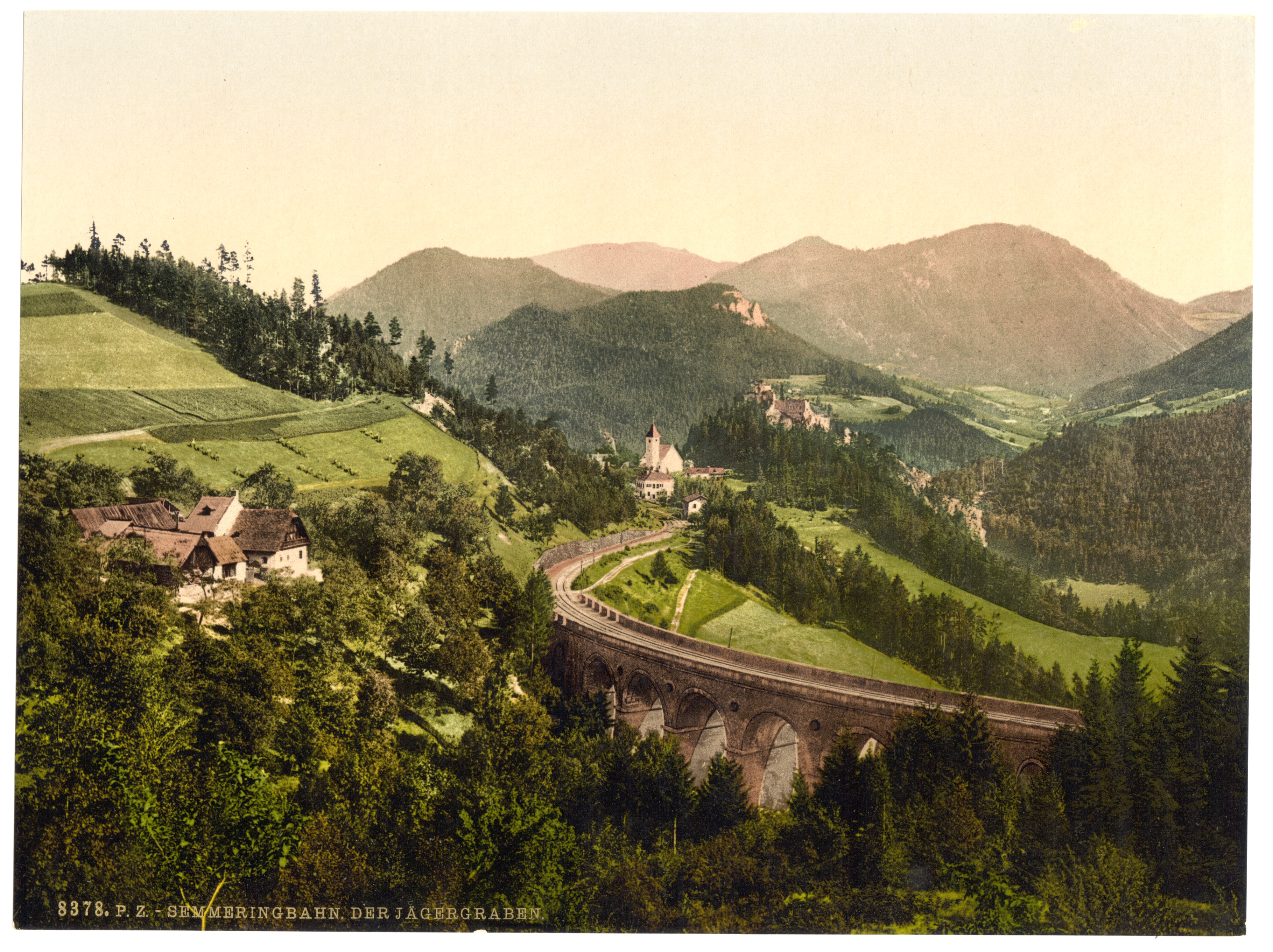 Print no. "8378".; Forms part of: Views of the Austro-Hungarian Empire in the Photochrom print collection.; Title devised by Library staff.